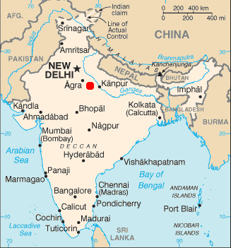 Map of India. Position of Allahabad highlighted.